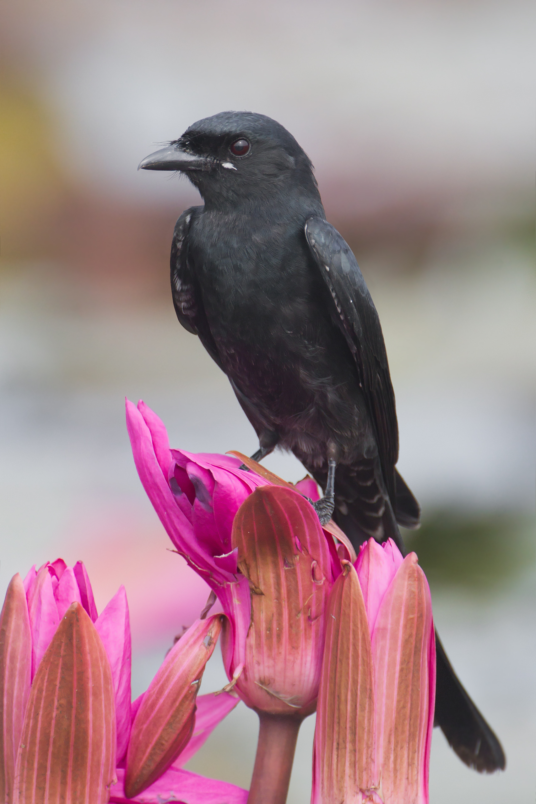 Black Drongo (Dicrurus macrocercus), Bueng Boraphet, Nahkon Sawon, Thailand